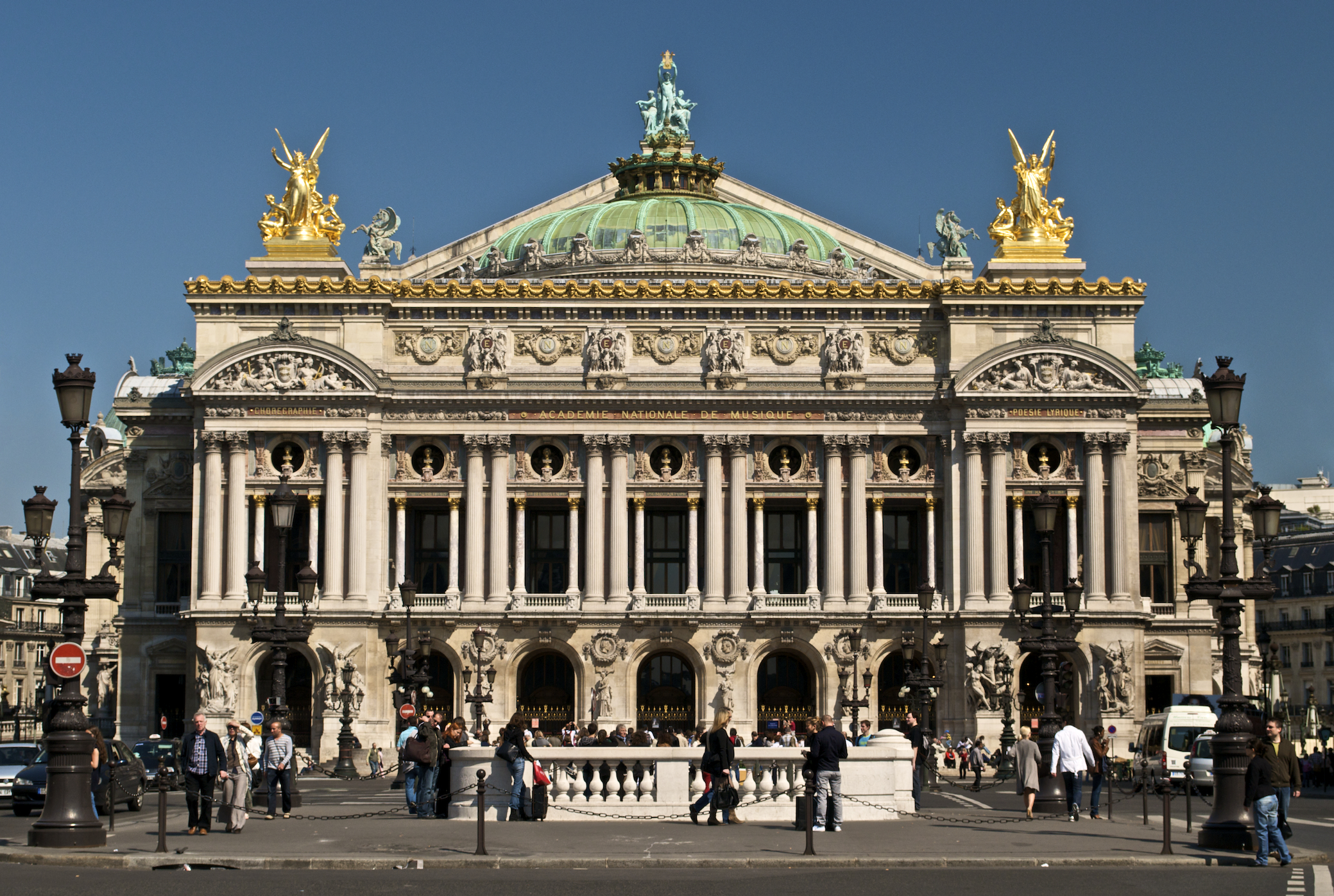 South façade of the Opéra Garnier in Paris, France.